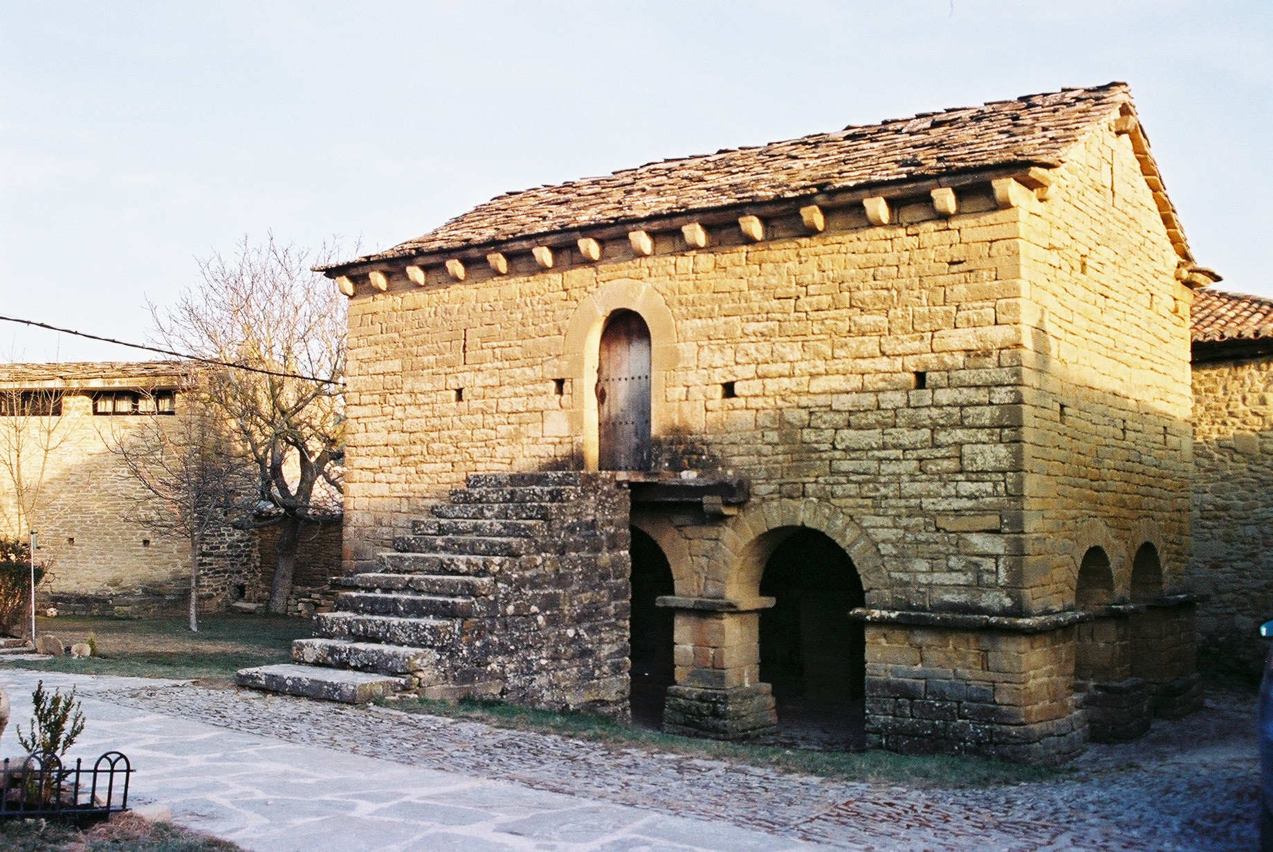 iratxeta